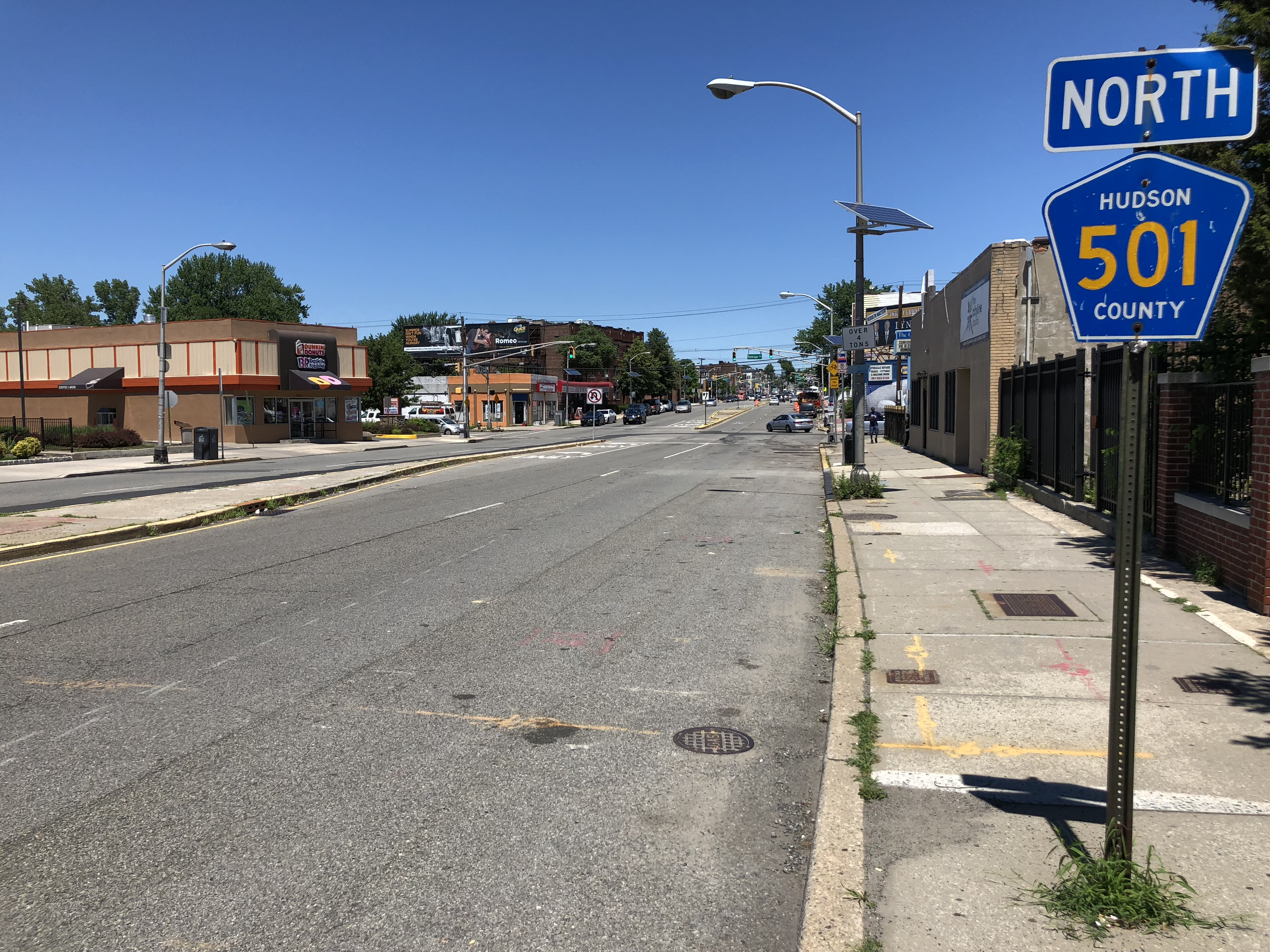 View north along Hudson County Route 501 (John F Kennedy Boulevard) just north of 63rd Street in Jersey City, Hudson County, New Jersey